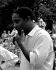 Image of former West Indies cricketer Sir Frank Worrell, taken in Canberra in 1961. Courtesy of the National Archive of Australia; accessed at The NAA has granted use of the image under the GFDL and confirmation of this permission has been forwarded to the OTRS.